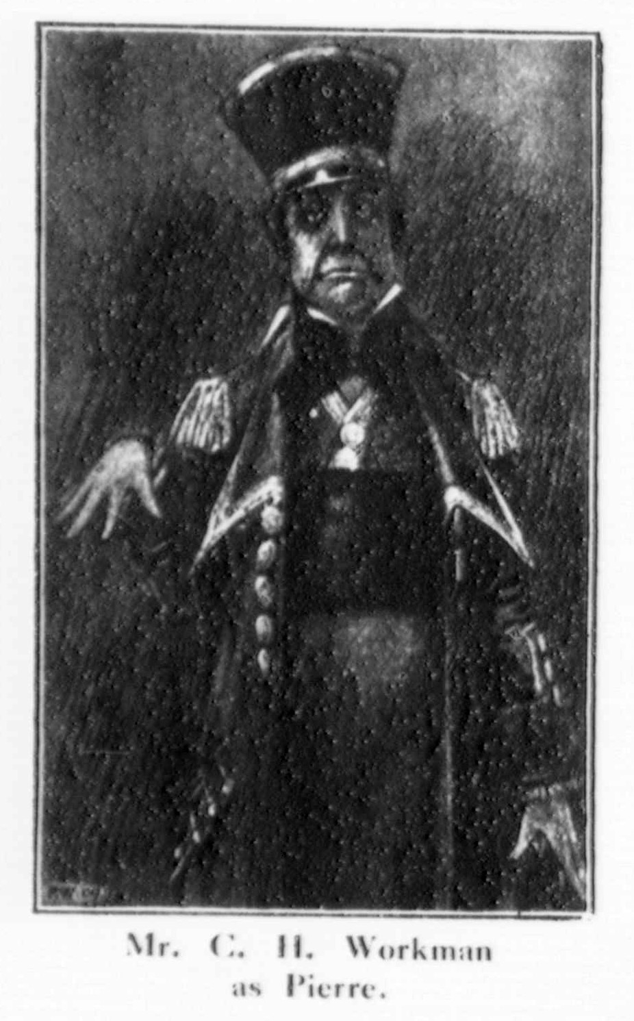 Caricature of Charles H. Workman as Pierre in The Mountaineers, scanned from "The Mountaineers, by Guy Eden and Reginald Somerville", Playgoer and Society Illustrated, October 1909, p.5